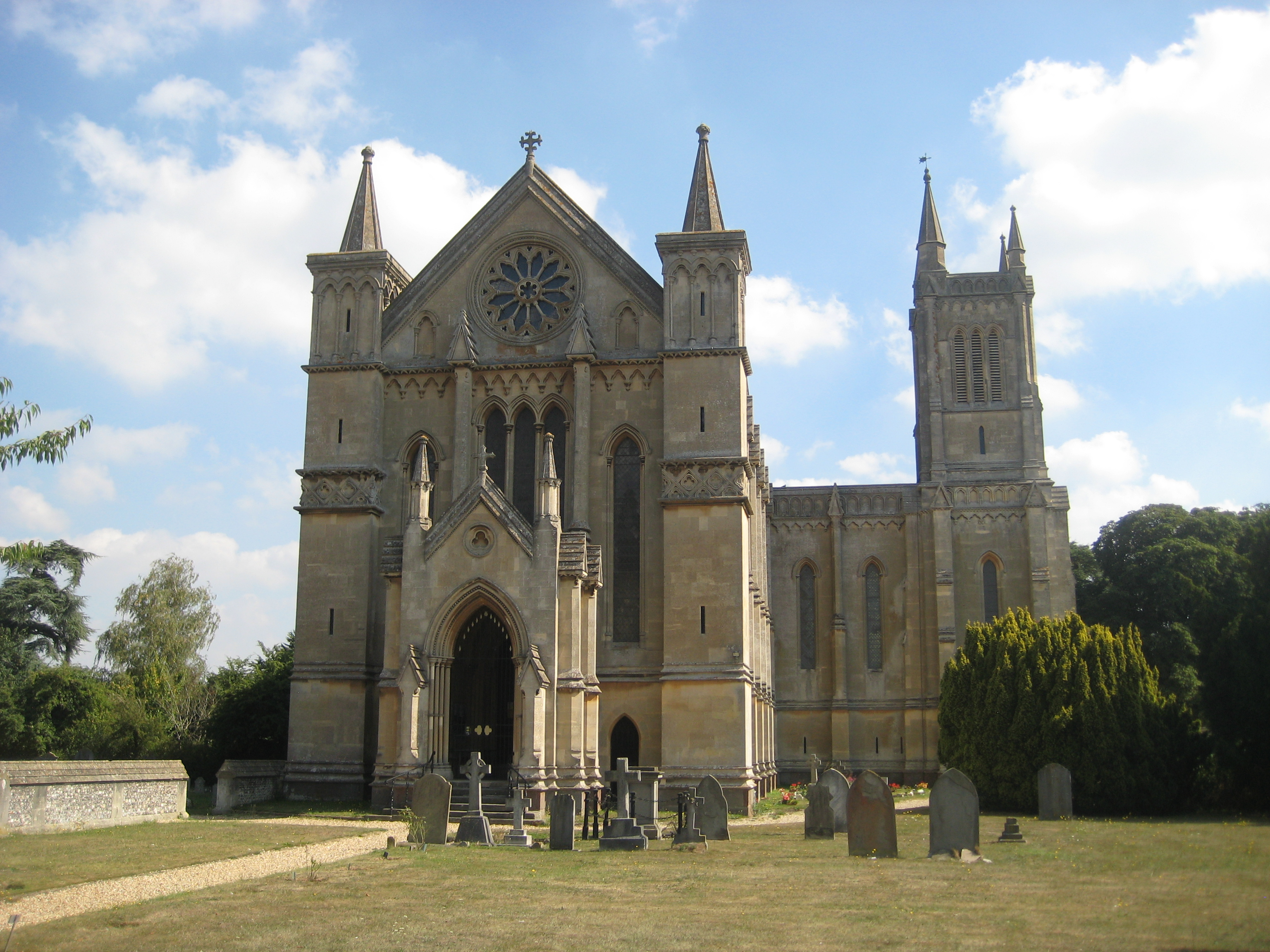 Holy Trinity parish church, Theale, Berkshire, seen from the west